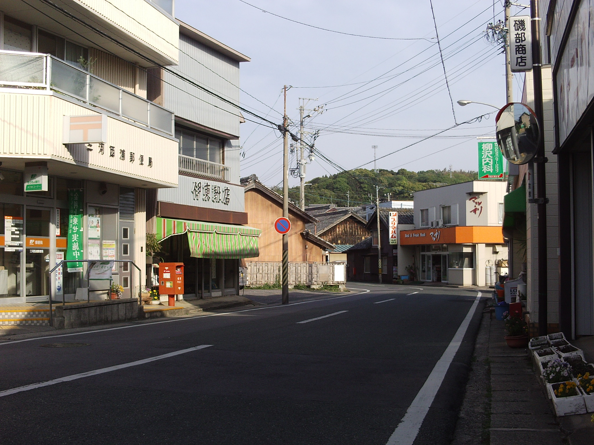 Halfway point of Aichi prefectural road No.493 in Nishiuracho, Gamagori, Aichi.